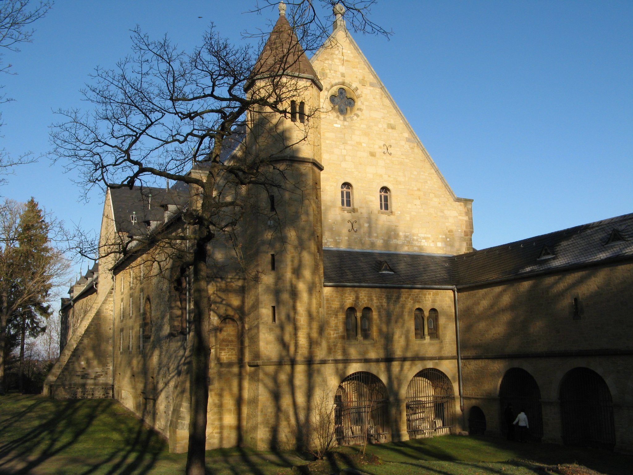 Back side of the ancient emperor castle in Goslar, Germany.